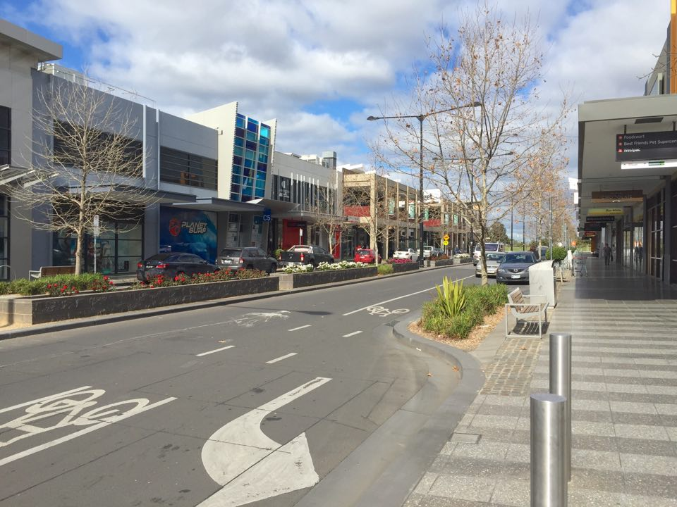 Downtown Point Cook